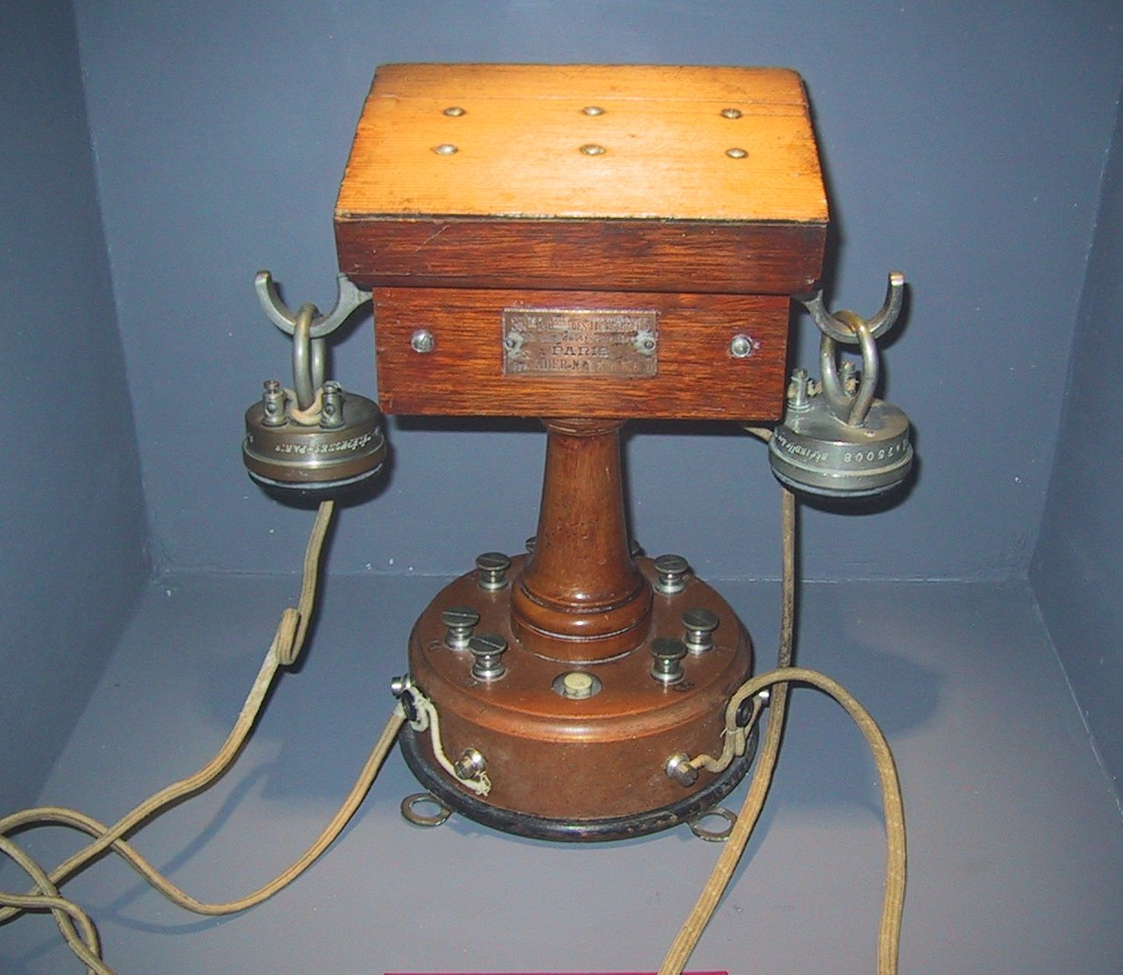 ADER phone (1880)